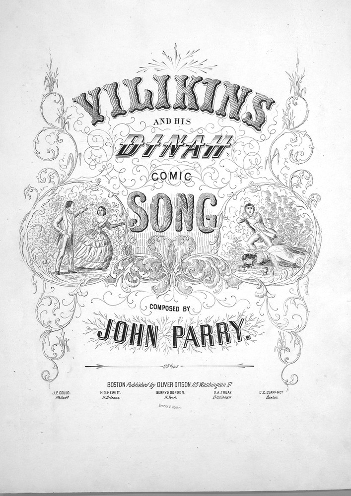 Cover of sheet music to a 19th c. song, 'Villikins and his Dinah': published in Boston, Mass., circa 1850s: music allegedly by John Parry